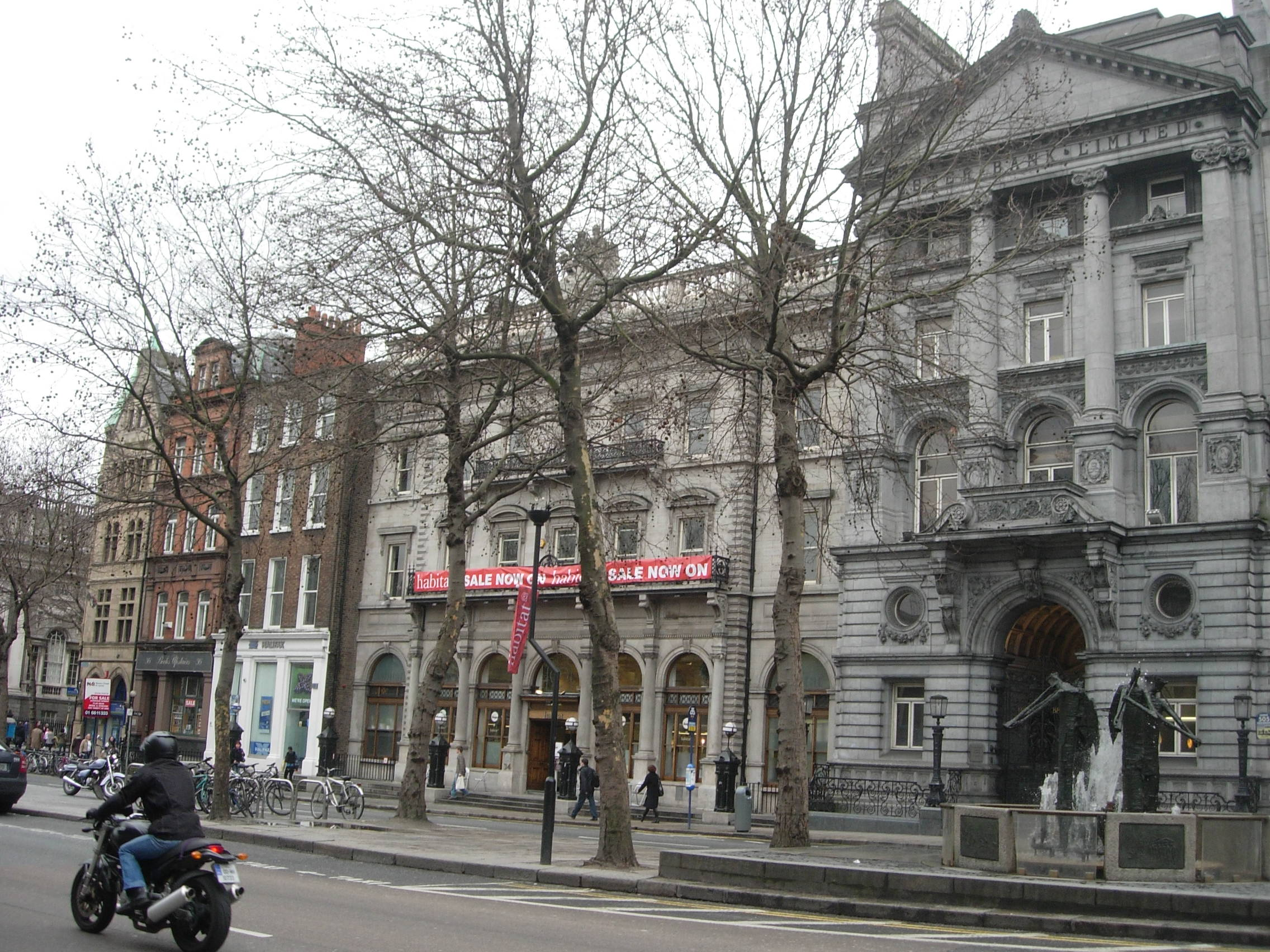 Dame Street, and the corner of Grafton Street.